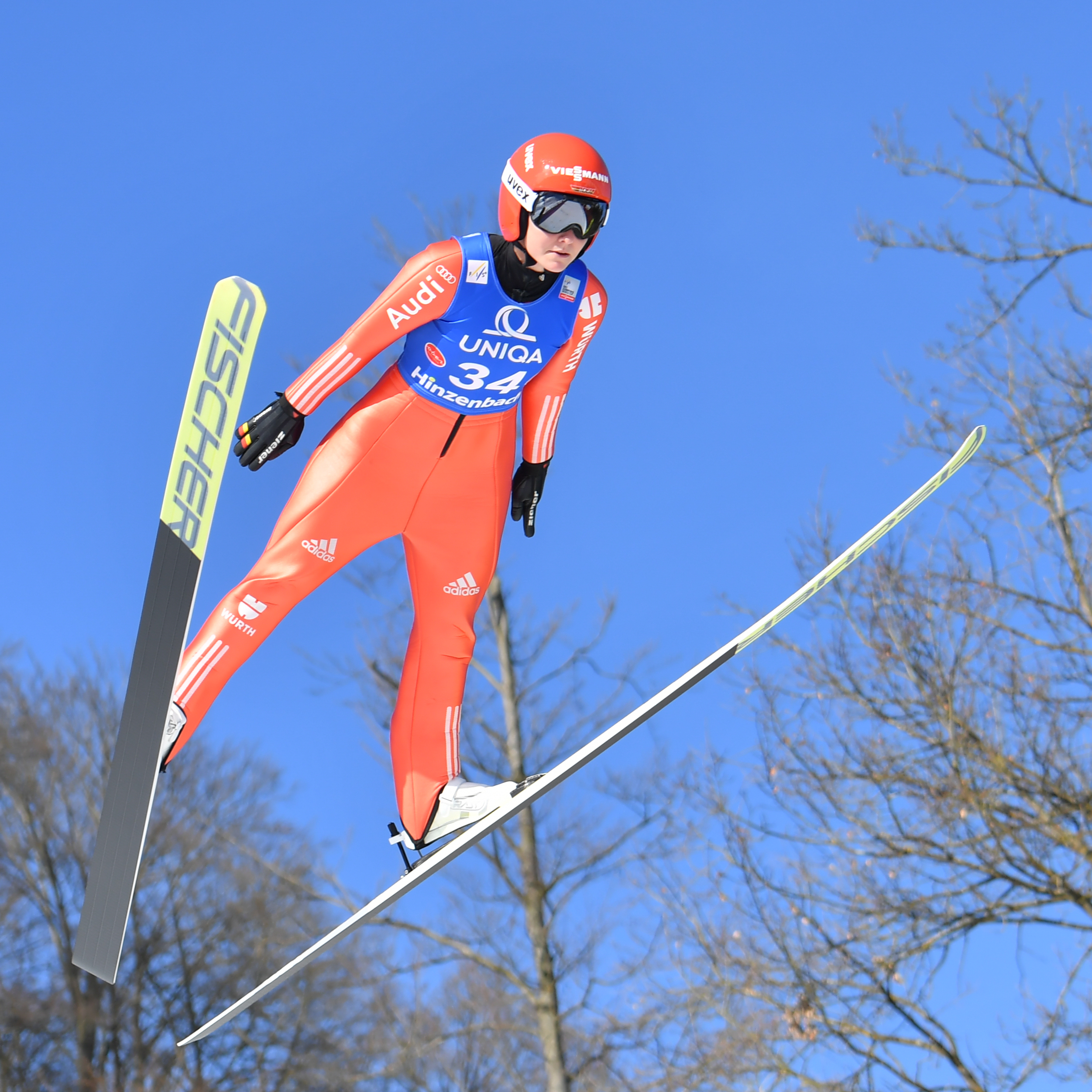 05/02/17, Hinzenbach, Austria, FIS Ski Jumping World Cup Ladies 2017